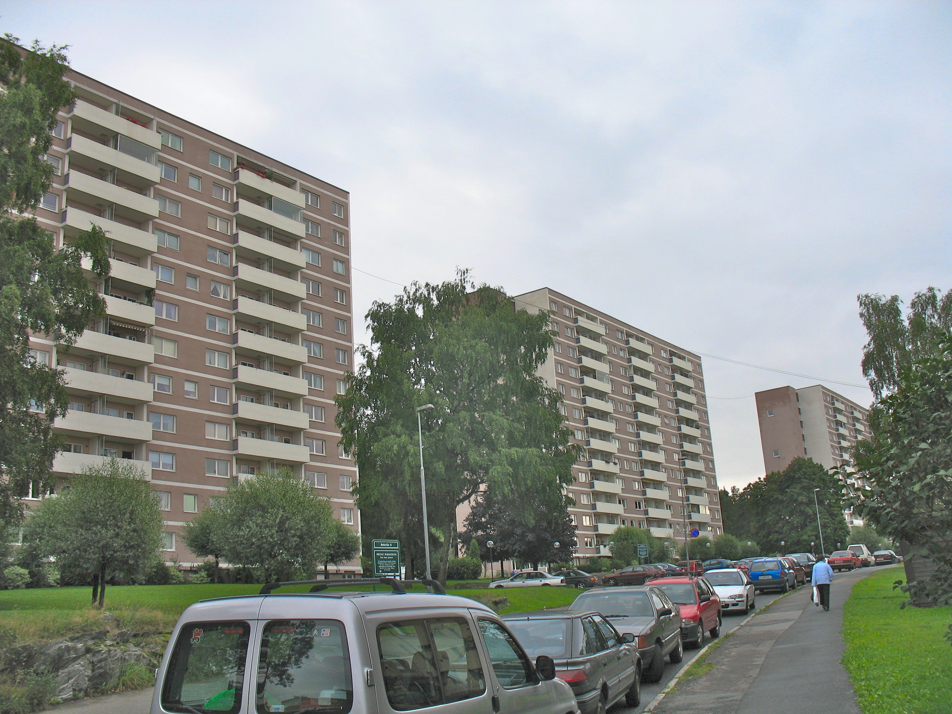 The three tower blocks at Bøler, Oslo, Norway. The blocks won the Sundt Price for architecture in 1956-57Norsk bokmål: Det tre høyblokkene på Bøler i Oslo. Blokkene vant Sundts premie for arkitektur i 1956-57.